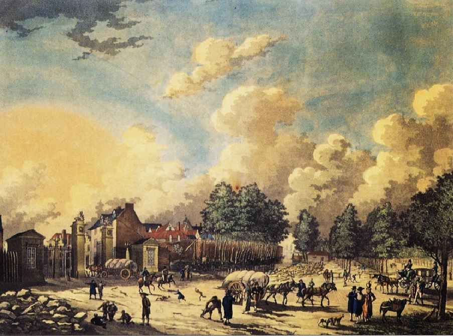 Jan Anthonie Langendijk, La Porte Napoléon, Museum of the City of Brussels